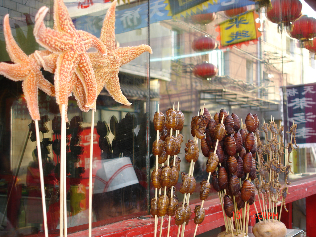 Fried Starfish! What's more?